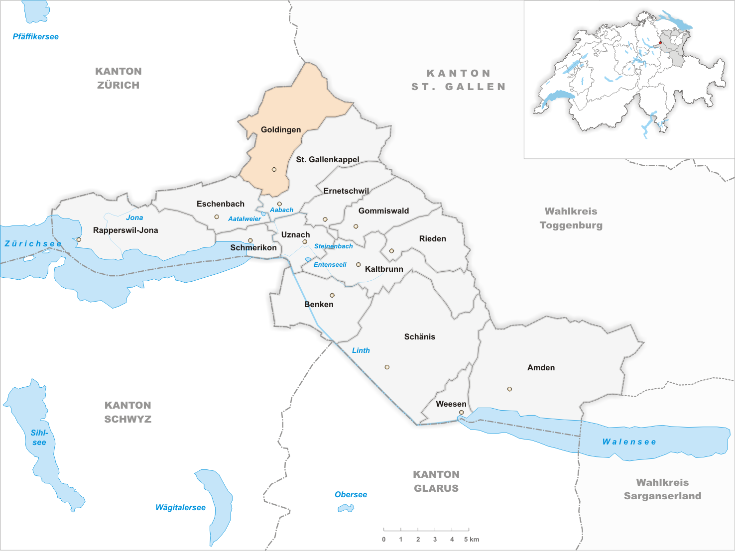 Municipality Goldingen